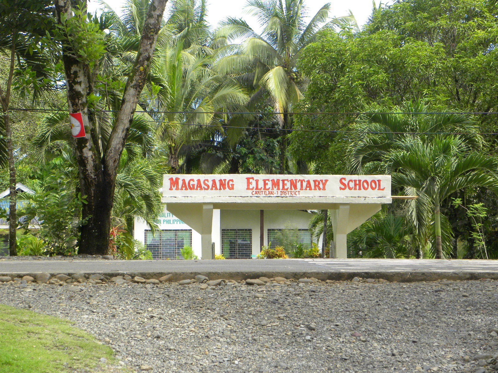 Taken at the Entrance of Magasang Elementary School